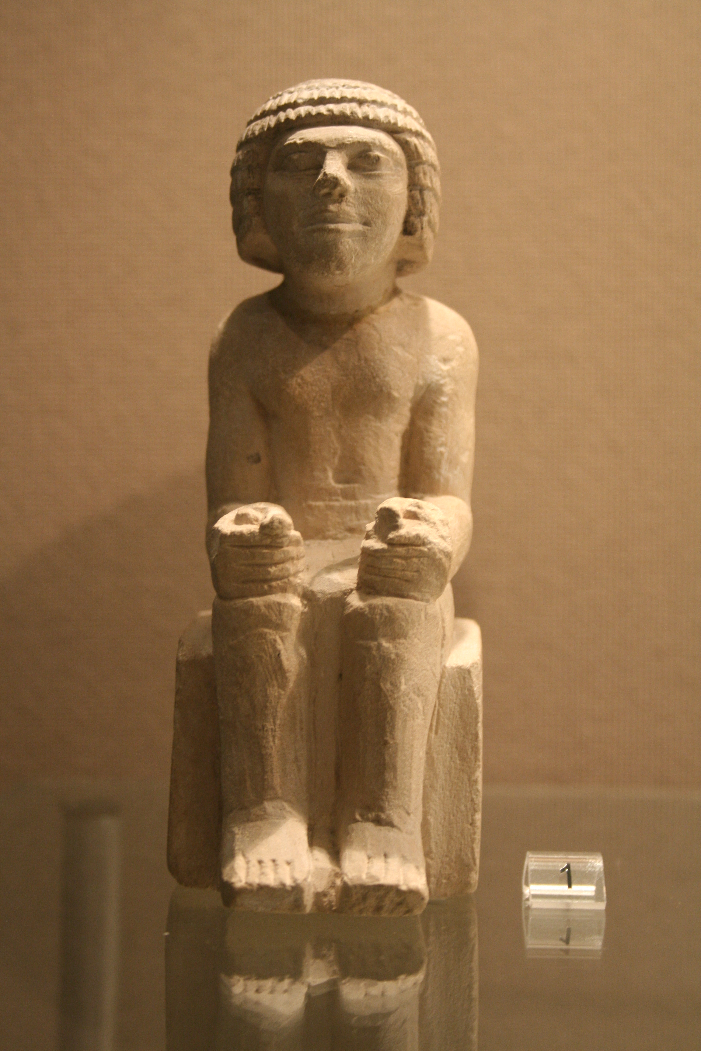 Statue of a man; Giza, 6th dynasty